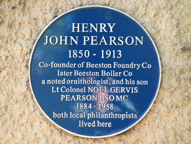 Henry John Pearson and Lt. Col. Noel Jervis Pearson DSO MC plaque